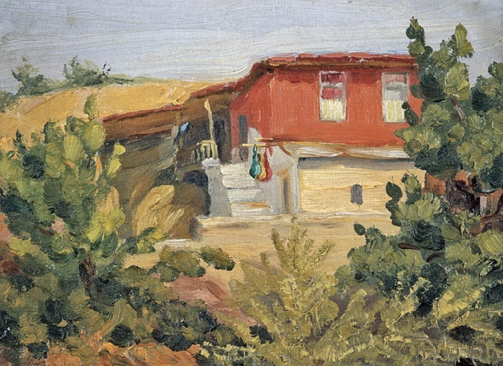 The red house